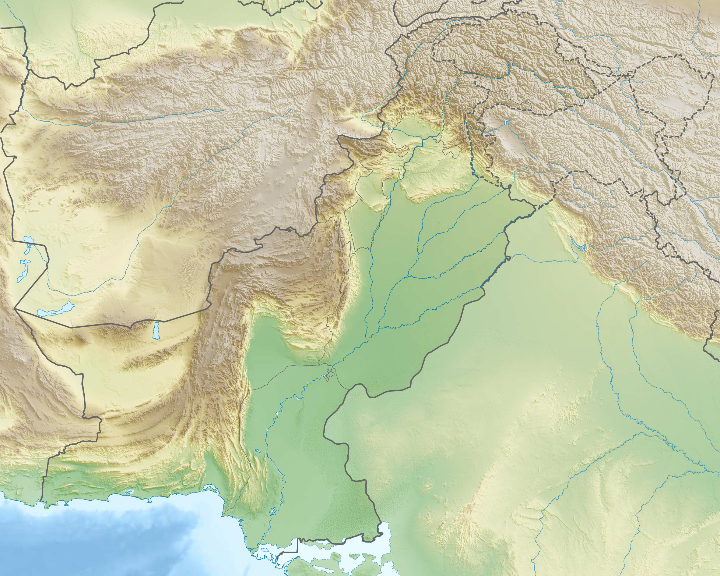 Physical location map of Pakistan Equirectangular projection, N/S stretching 115 %. Geographic limits of the map: N: 37.3° N S: 23.4° N W: 60.5° E E: 80.5° E